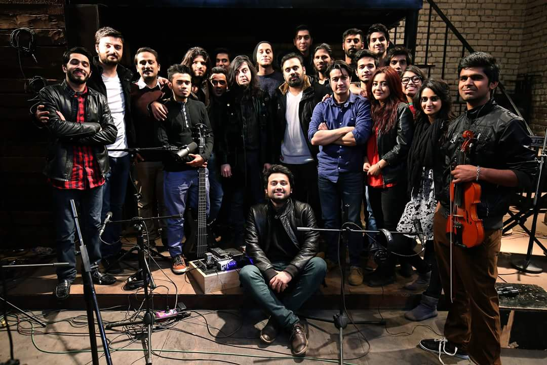 Xulfi with the Nescafe Basement Team